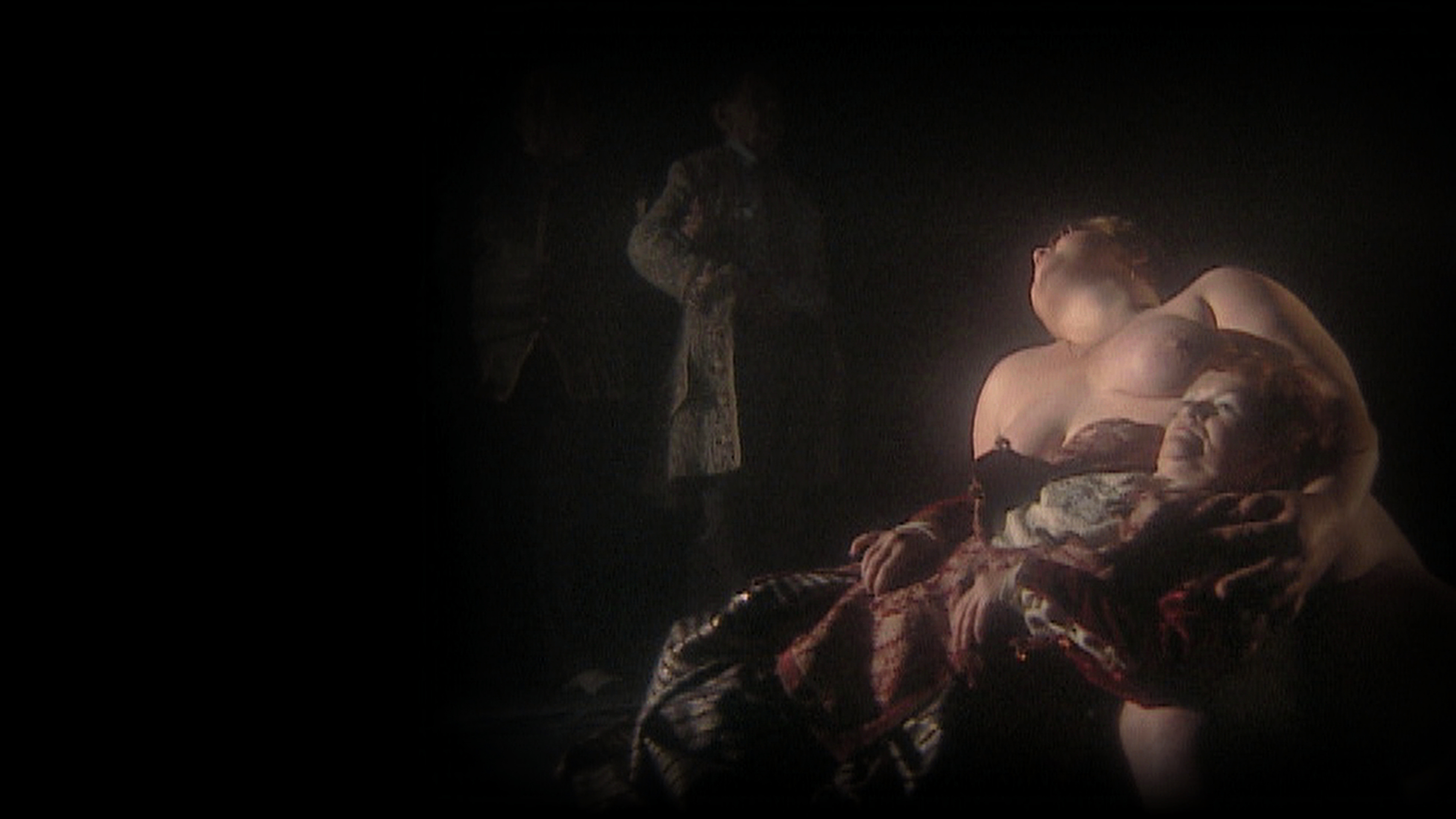 Still from Merry-Go-Round, short movie